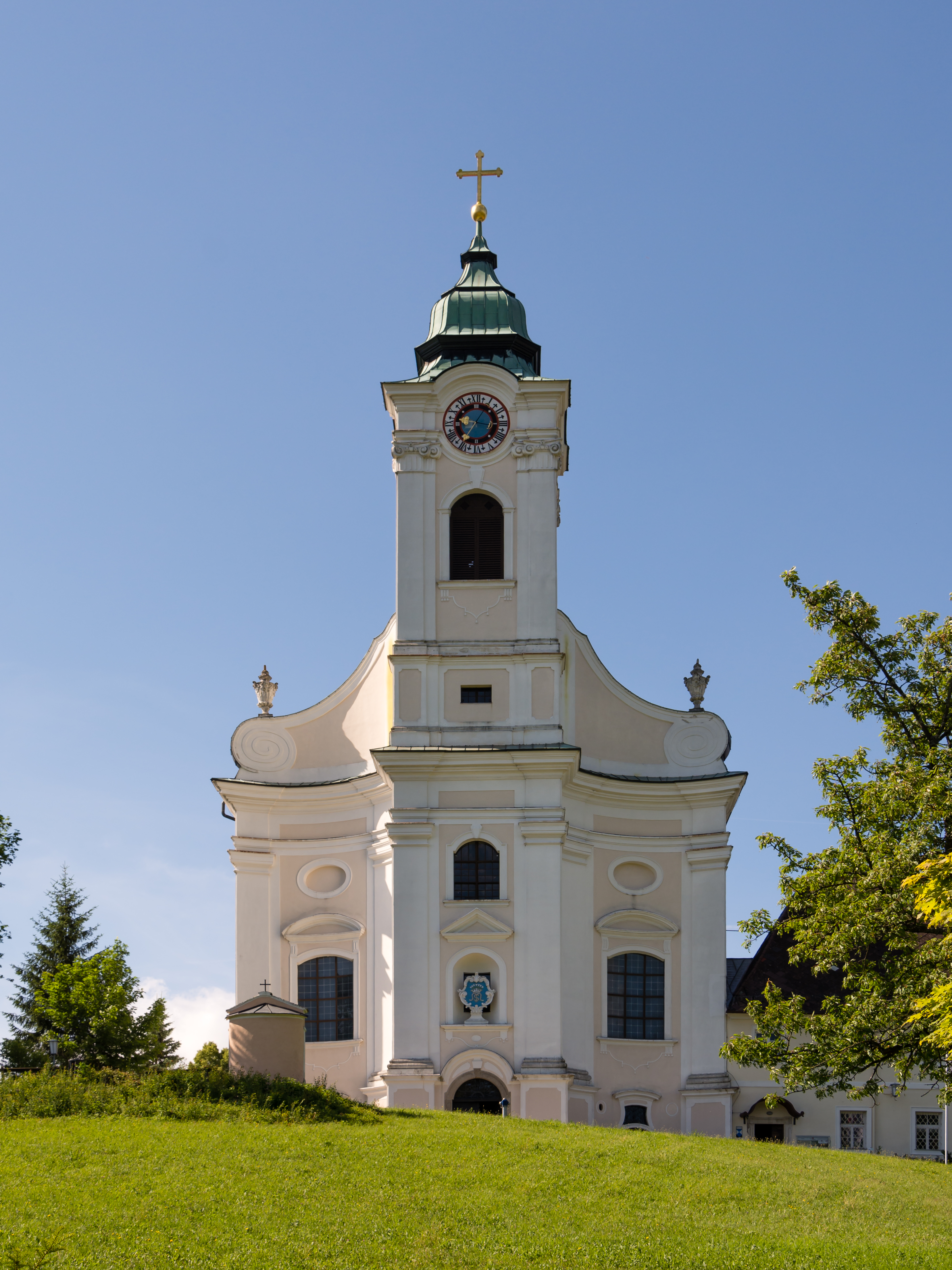 Pilgrimage church of Maria Langegg, Lower Austria